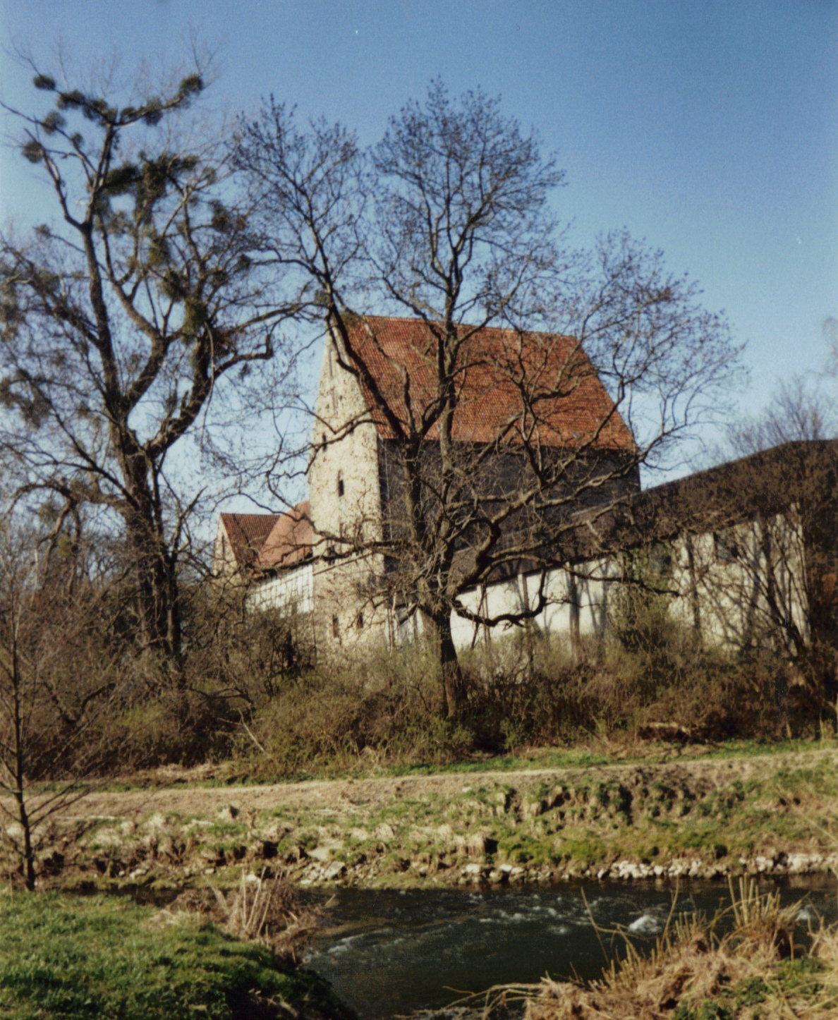 The river Innerste in front of Marienburg Castle near Hildesheim